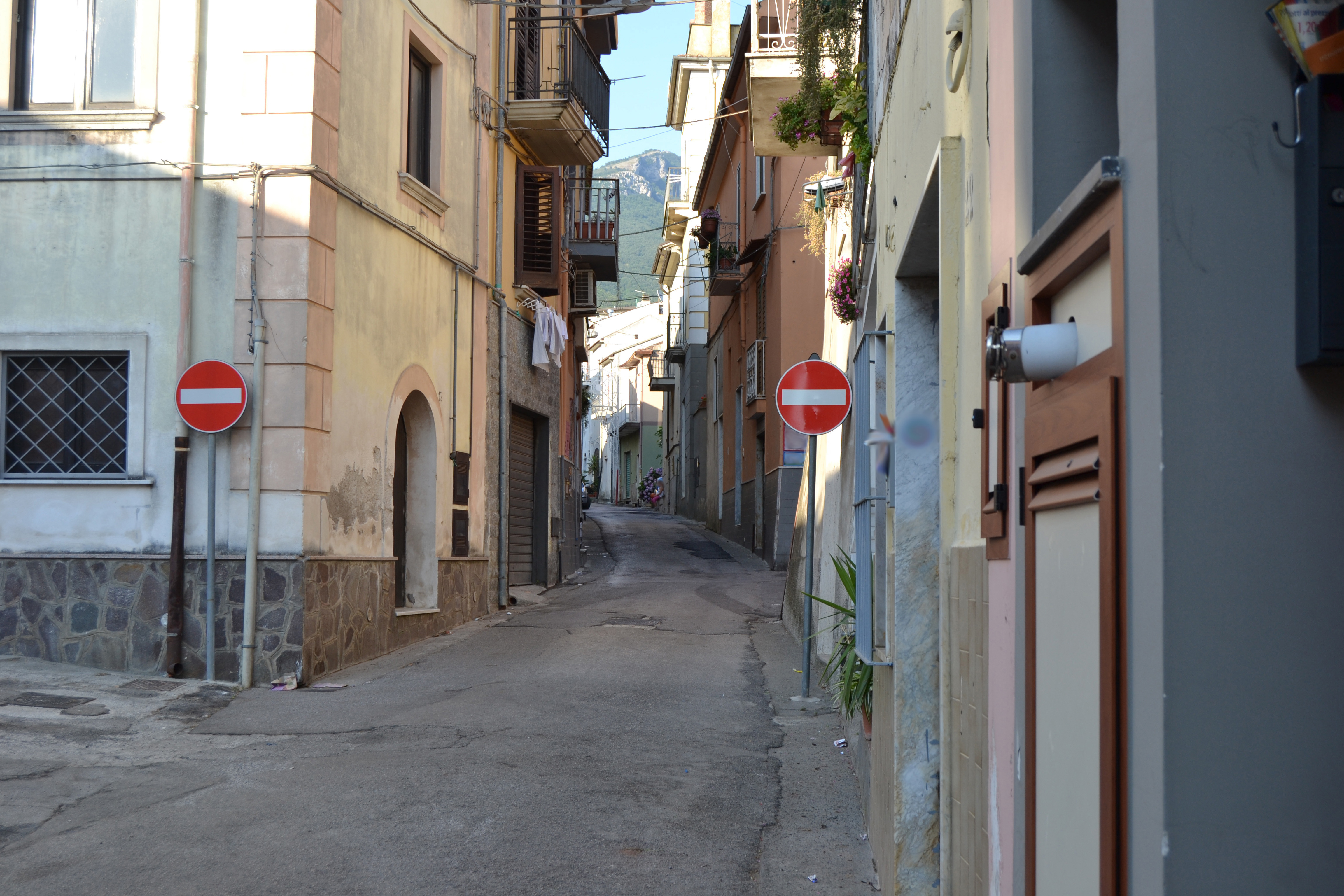 Pizzolano - frazione of Fisciano (SA), Italy.